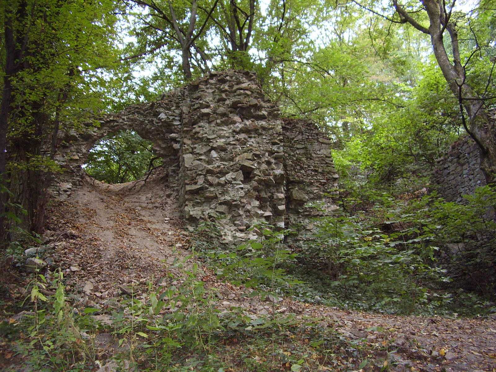 Slovakia, ruins of the Biely Kamen castle This medium shows the protected monument with the number 107-431/1 (other) in the Slovak Republic.